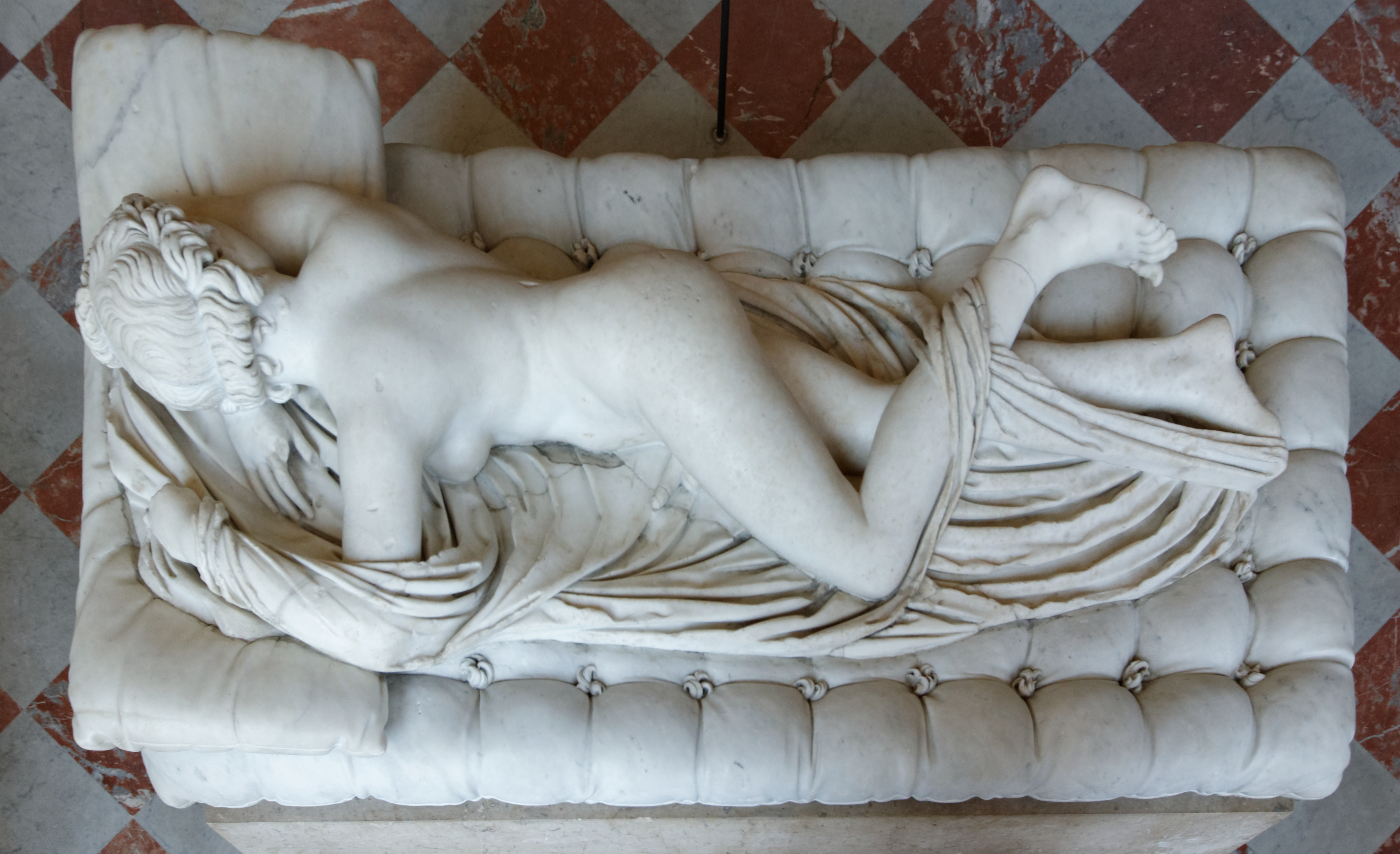 Sleeping Hermaphroditus. Hermaphroditus: Greek marble, Roman copy of the 2nd century CE after a Hellenistic original of the 2nd century BC, restored in 1619 by David Larique; mattress: Carrara marble, made by Gianlorenzo Bernini in 1619 on Cardinal Borghese's request.